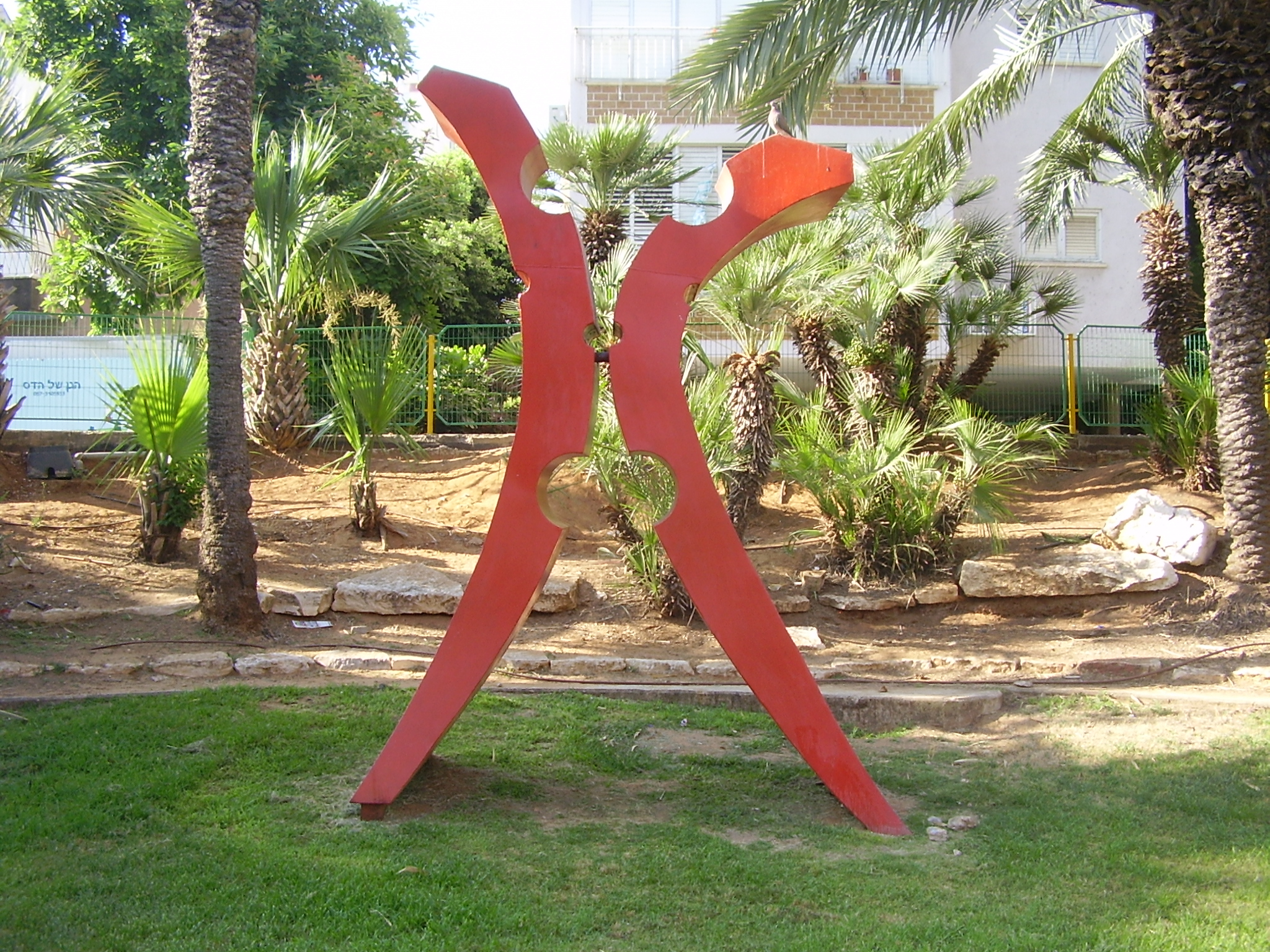 Clothes peg Sculpture in Petah Tikva, Israel